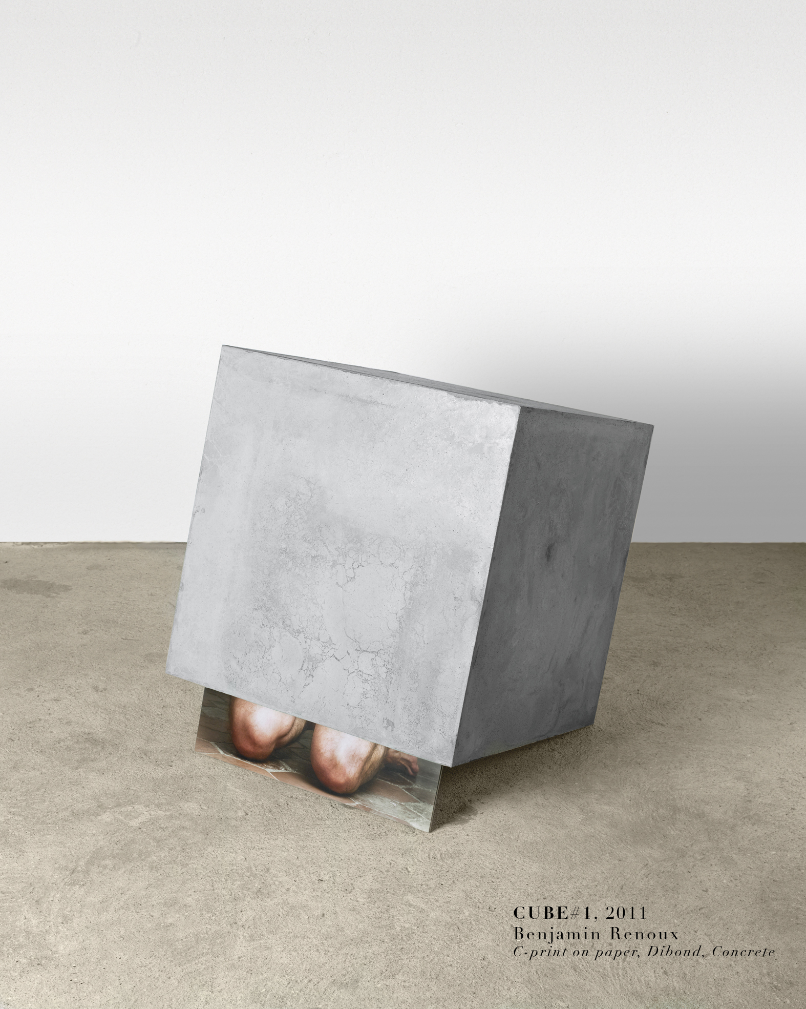 C-print on paper, Dibond, Concrete